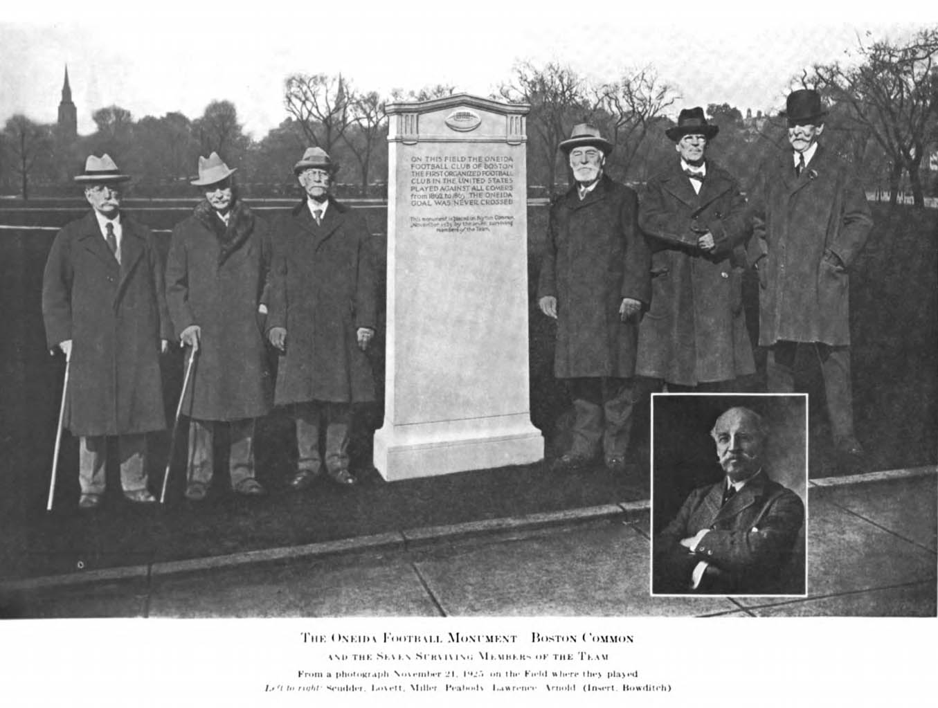 The six surviving members of the Oneida Football Club, in the inauguration of the monument that remembered the team at Boston Common. Oneida is considered the first team to practice any form of football in the United States. (The former members, from left to right): Winthrop Scudder, James Lovett, Gerritt Miller (founder and captain), Francis Peabody, Robert Lawrence, Edward Arnold. (insert: Edward Bowditch).